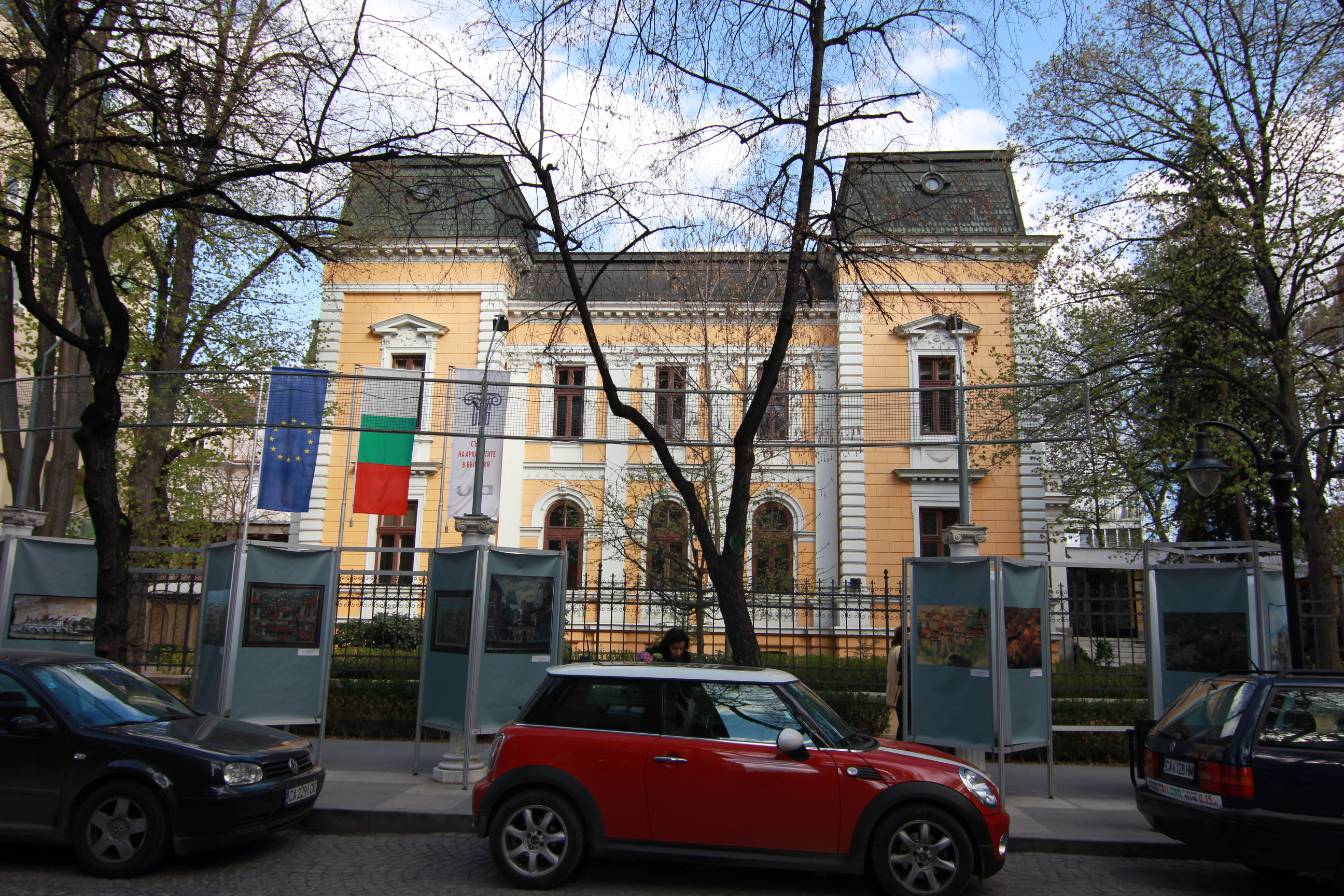 Architects' Union House in Krakra street, Sofia, Bulgaria